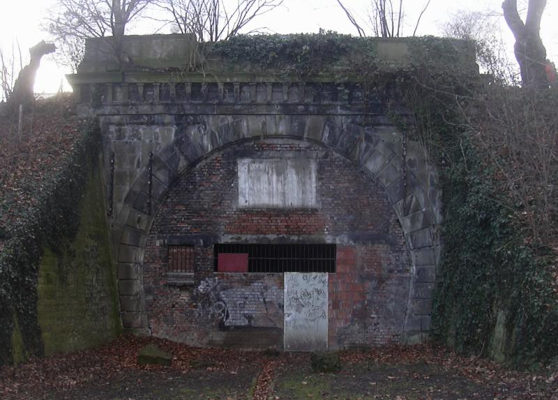 Northern entrance of a former railway tunnel in Stuttgart (Rosensteintunnel), Germany